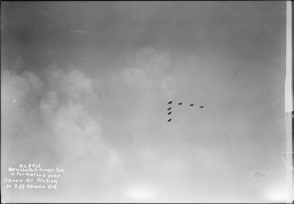 Westland Wapitis of No. 3 (Bomber) Squadron RCAF flying in a V formation over Ottawa Air Station (Rockcliffe)